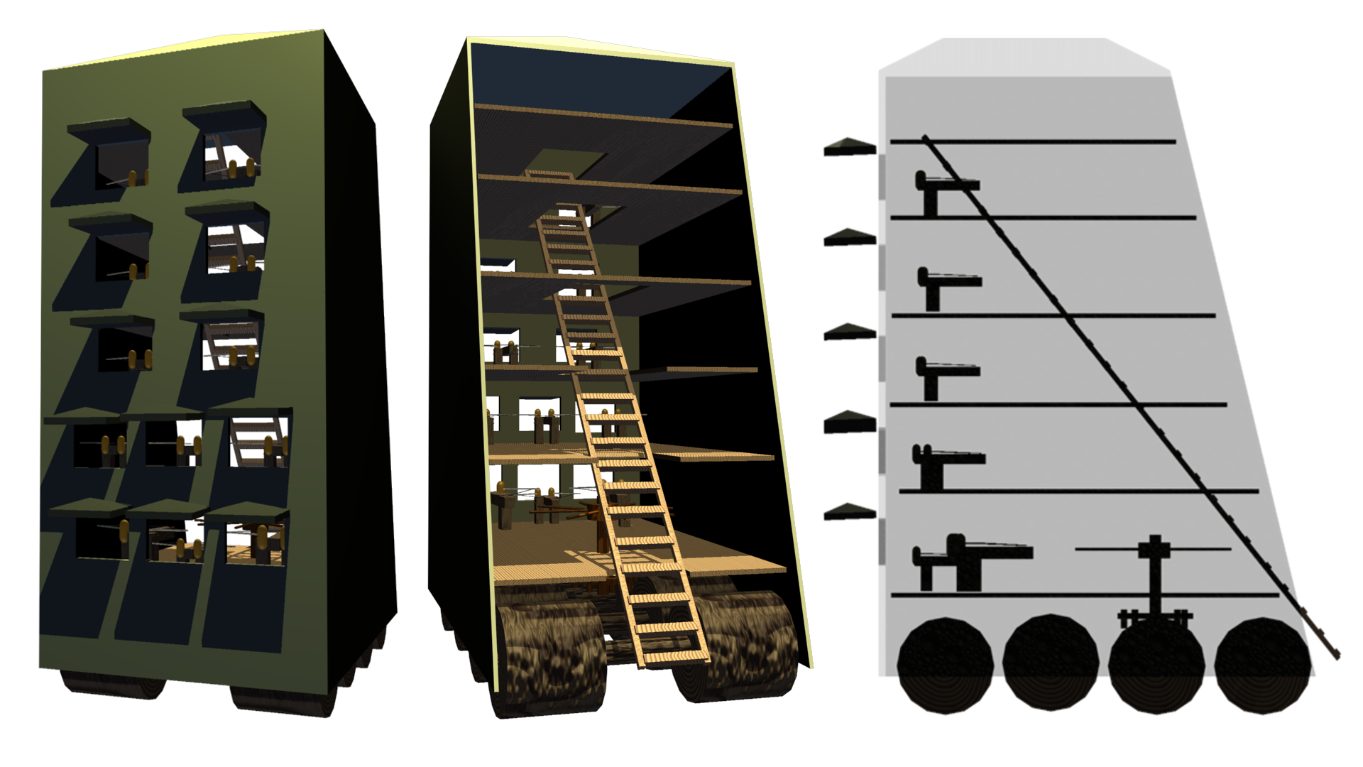 3d model and cross-section of Helepolis approximately as described in wiki article. Created in trueSpace 3 demo edition and GIMP.